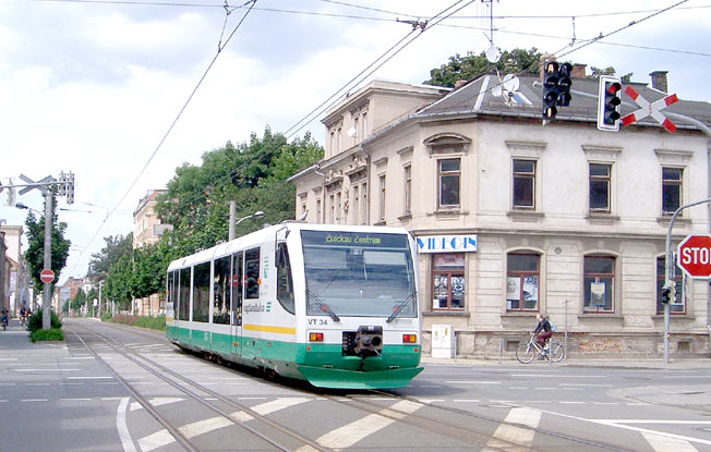 The Zwickau Model sees lightweight diesel TrainTrams (also known as RegioSprinters) being extended from the mainline railway through urban streets just like regular trams (streetcars) - albeit although they are used within the street environment and even (for a short distance) over part of a pedestrianised zone they are always segregated from the normal road traffic. These TrainTrams are operated by the VogtlandBahn railway. Because the trams are metre gauge and the trains are standard gauge so where the trams and trains share tracks they use a three rail system featuring one shared rail and one exclusive rail each. Photographed by SPSmiler in July 2005.